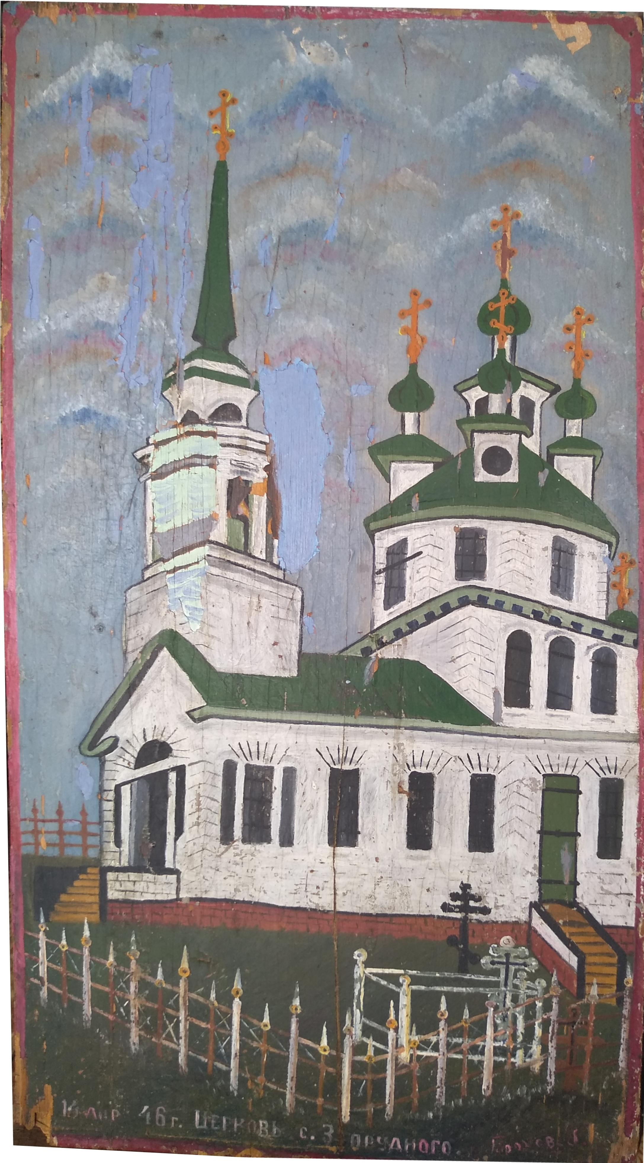 Temple s. Zaprudnoe, 1946